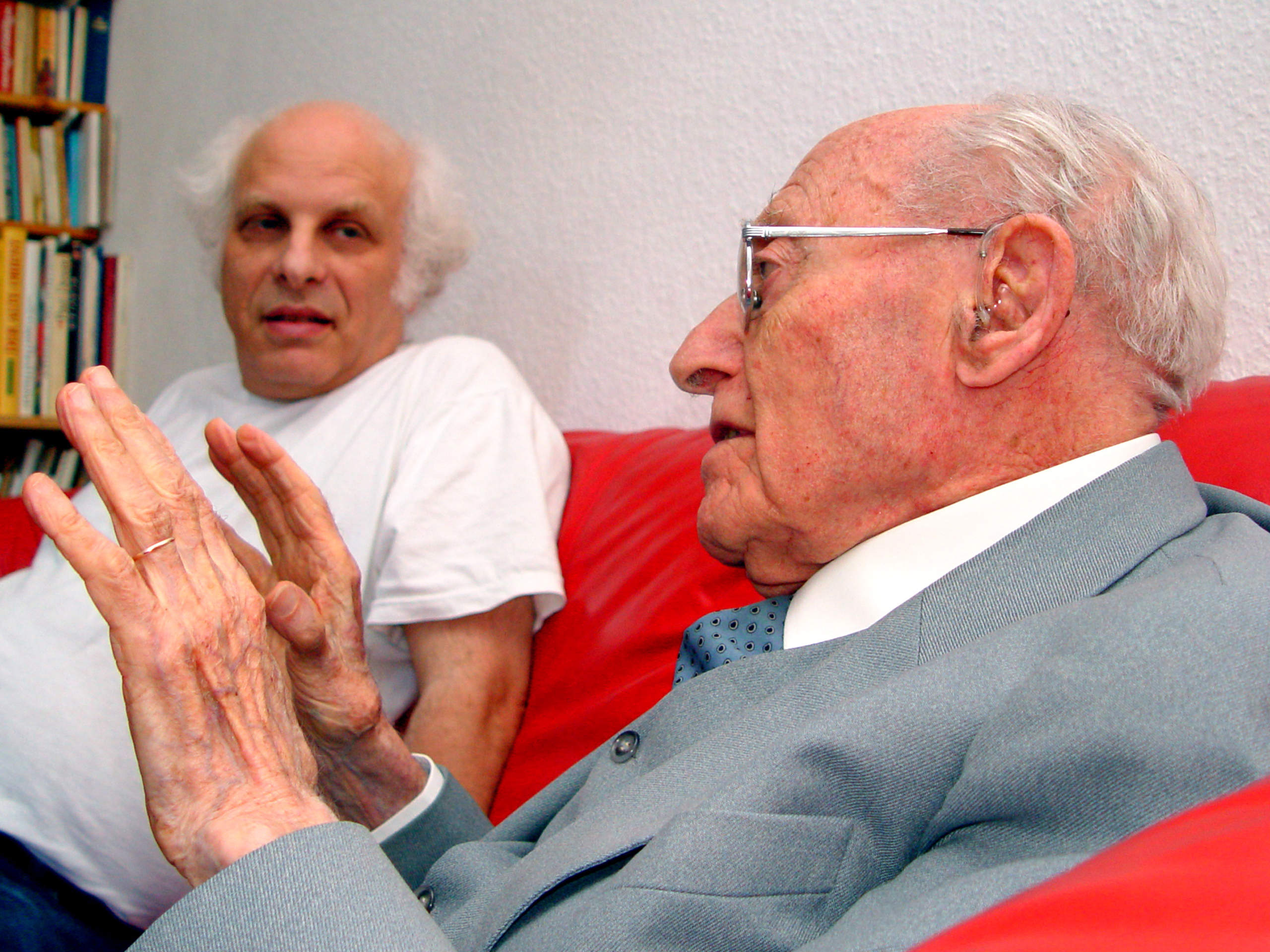 Pianist Jeffrey Burns and Composer Josef Tal, Berlin 2004.